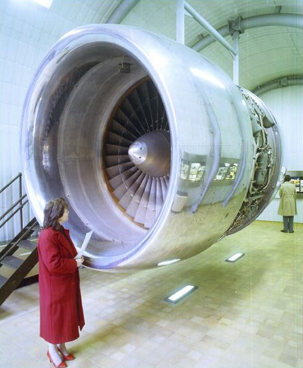 Rolls-Royce RB211 turbofan engine on display in Derby Silk Mill